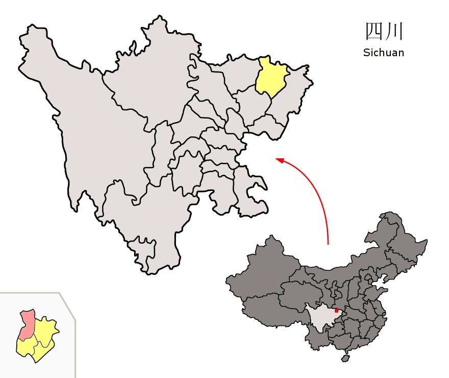 Location of Nanjiang County (pink) and Bazhong Prefecture (yellow) within Sichuan province of China Map drawn in october 2007 using various sources, mainly : Sichuan province administrative regions GIS data: 1:1M, County level, 1990 Sichuan Counties map from